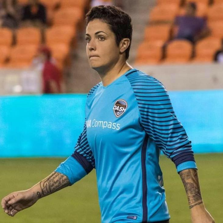 Haley Carter, Reserve Goalkeeper of the Houston Dash, during their match against the Washington Spirit of the National Women's Soccer League on Thursday, 18 August 2016.